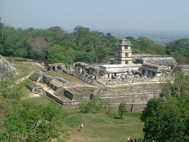 The Palace, Palenque Ruins. More. imperador 30q picture of Palenque and Mexico can be found here